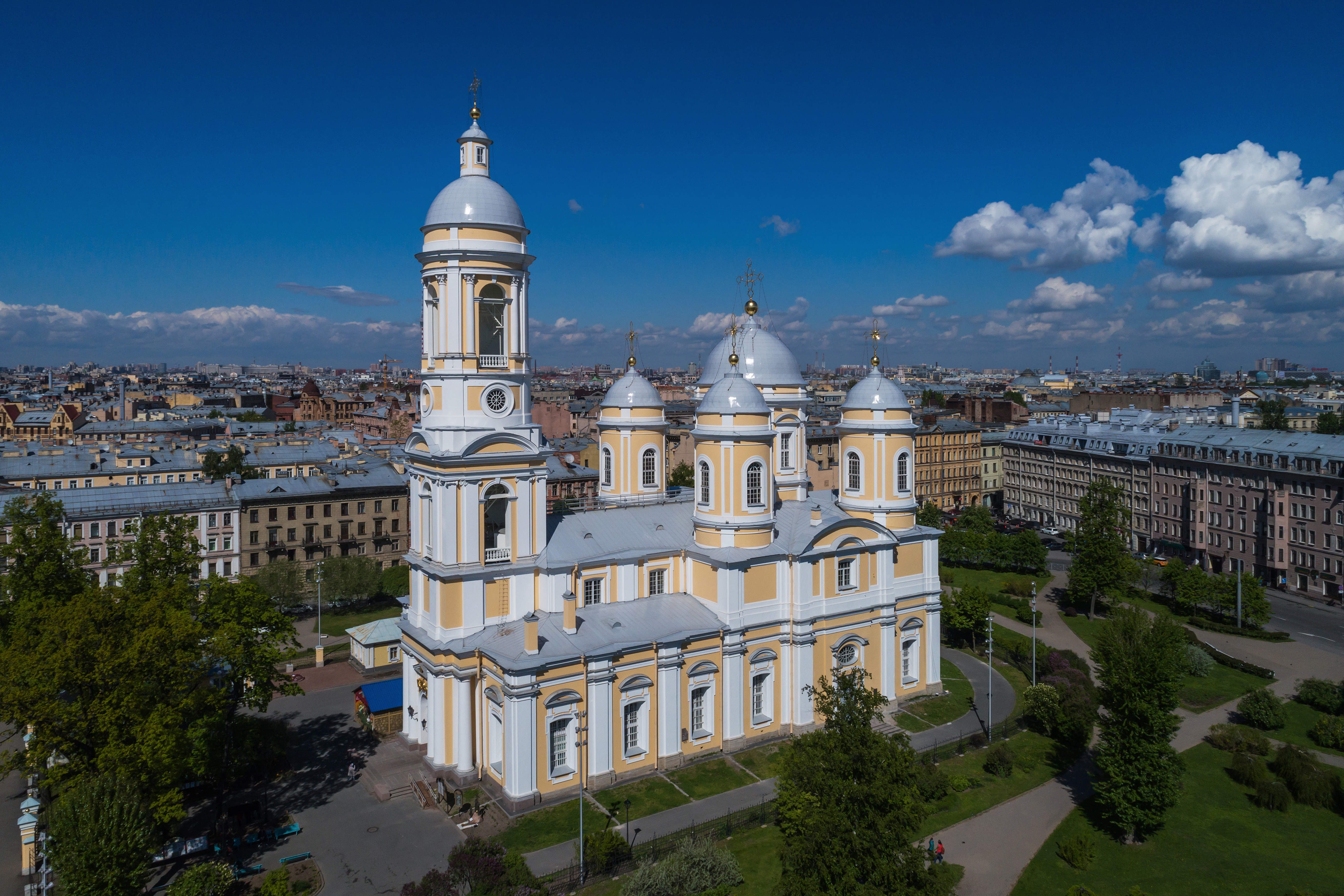 Aerial photo of the Prince Vladimir Cathedral in Saint Petersburg (Russia).